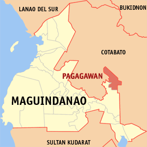 Map of the Maguindanao showing the location of Pagagawan